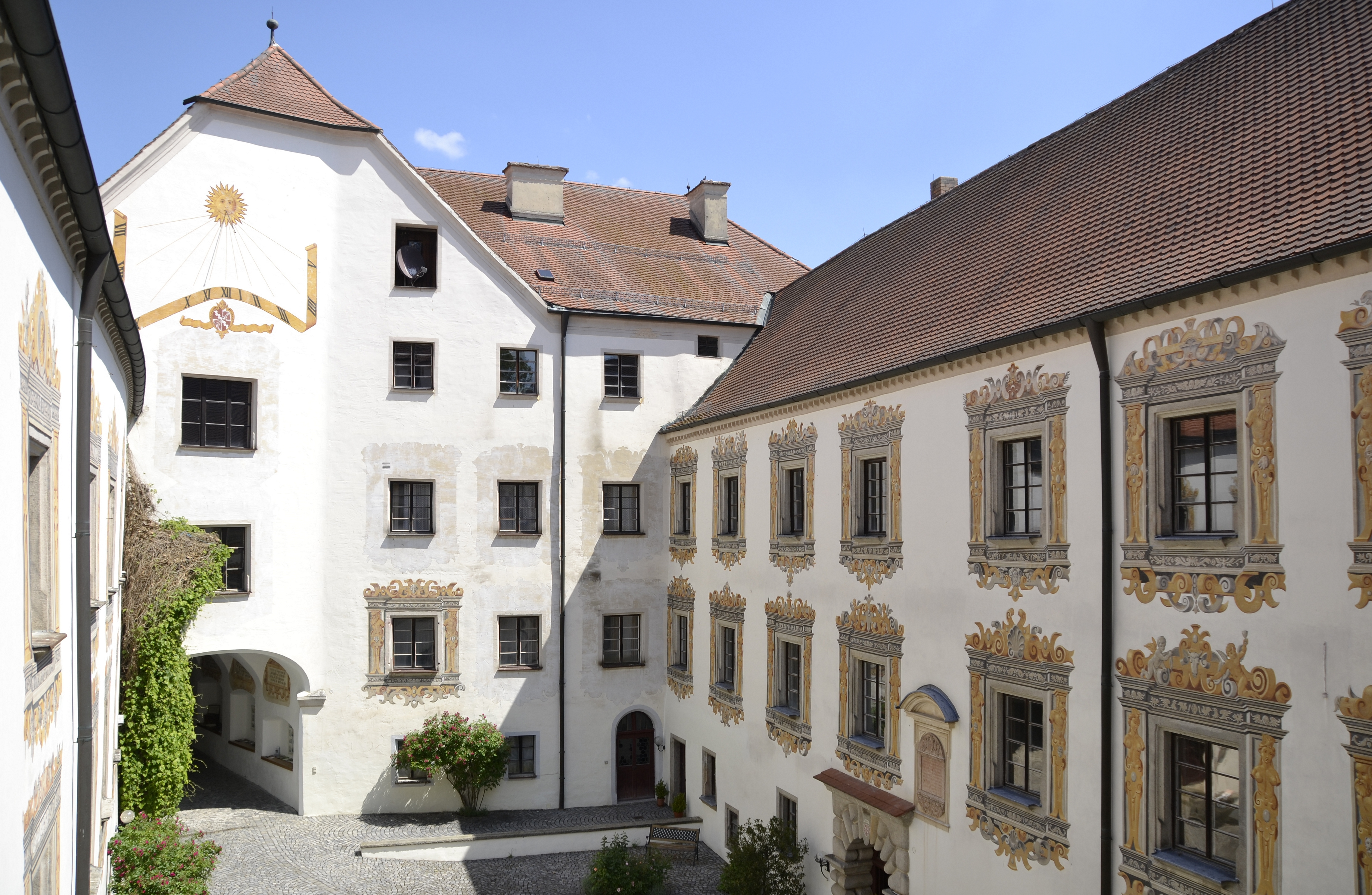 The internal courtyard of Schloss Ortenburg.